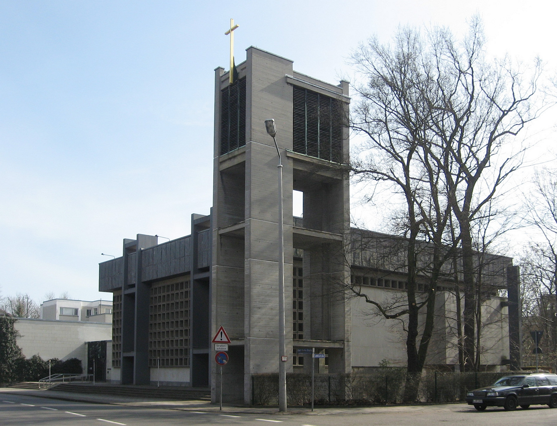 Community center of the Provost's Church of the Holy Trinity in Leipzig, Emil-Fuchs-Strasse 5—7